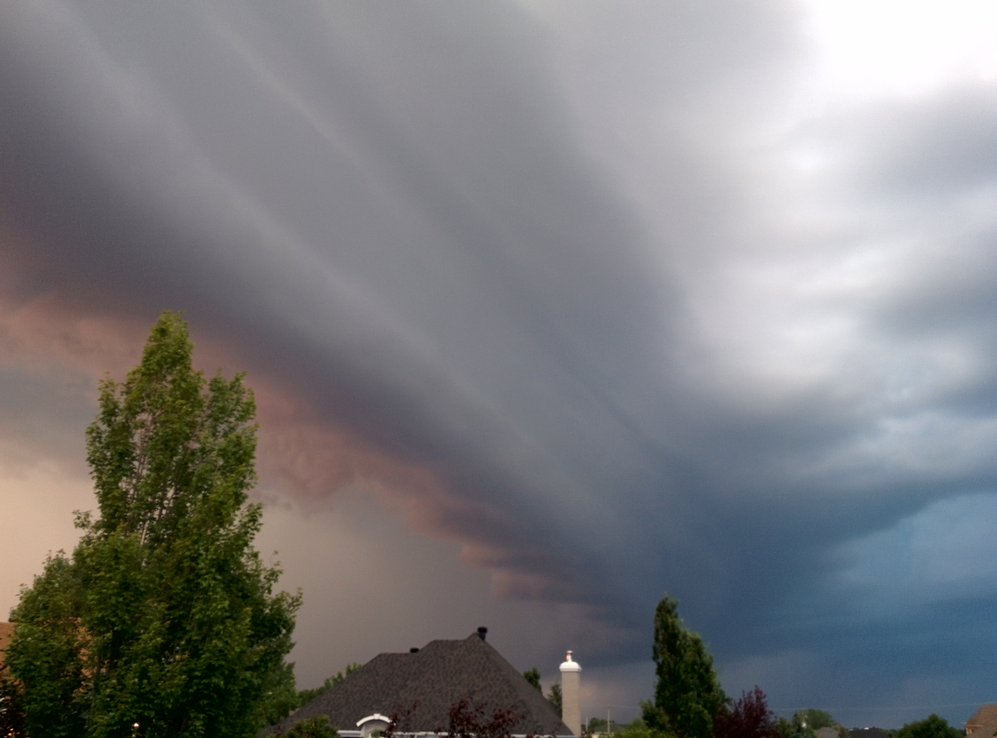 Shelf Cloud, L'Ile-Bizard, Canada (taken Sep 27 2015)